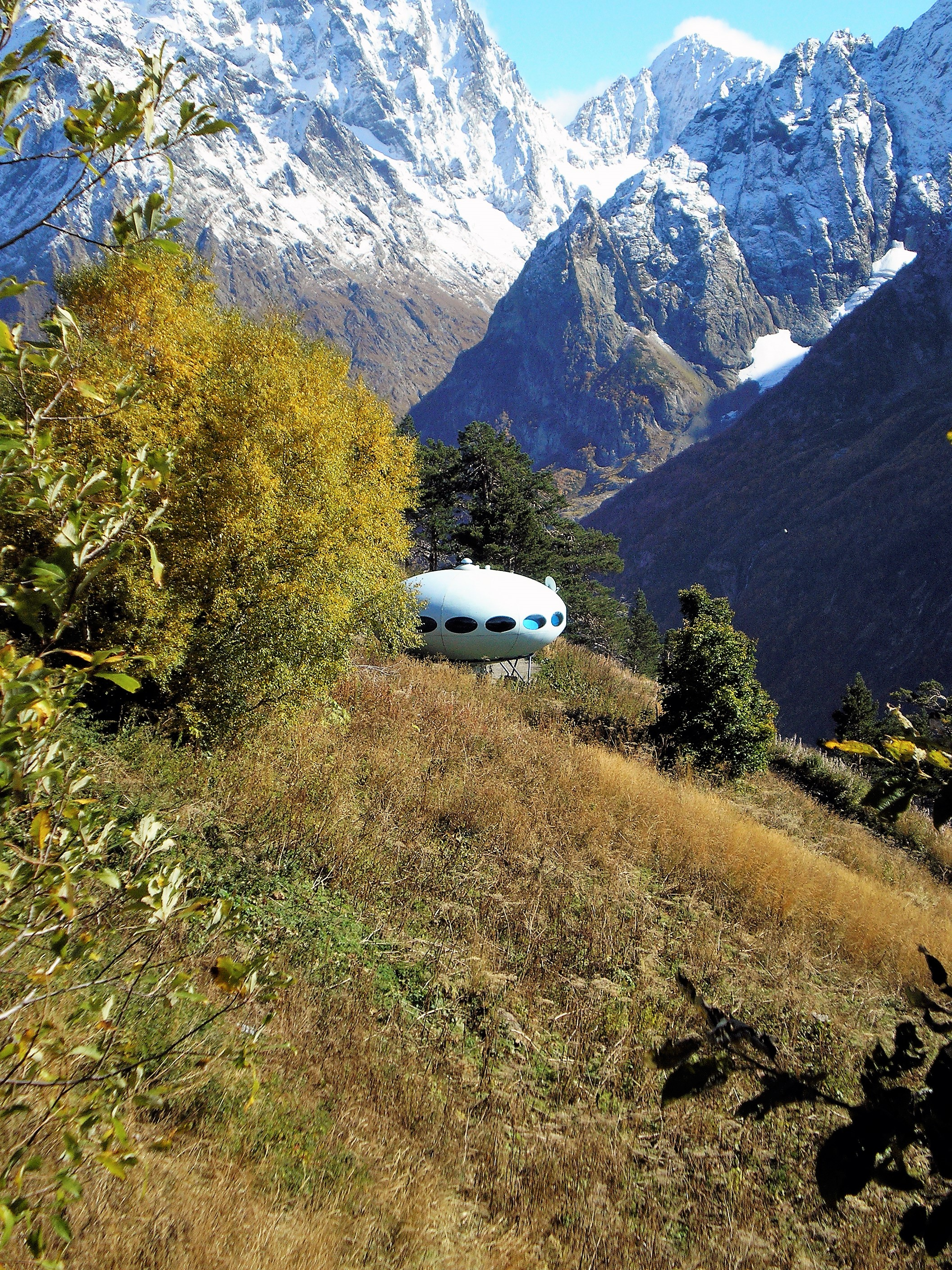 Dombay, Karachay-Cherkess Republic, Russia, hotel Flying Saucer